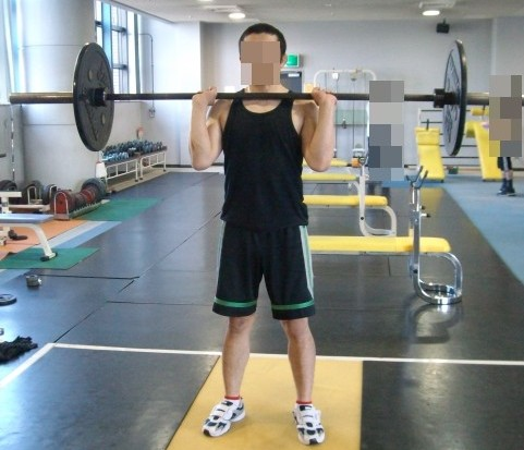 highclean